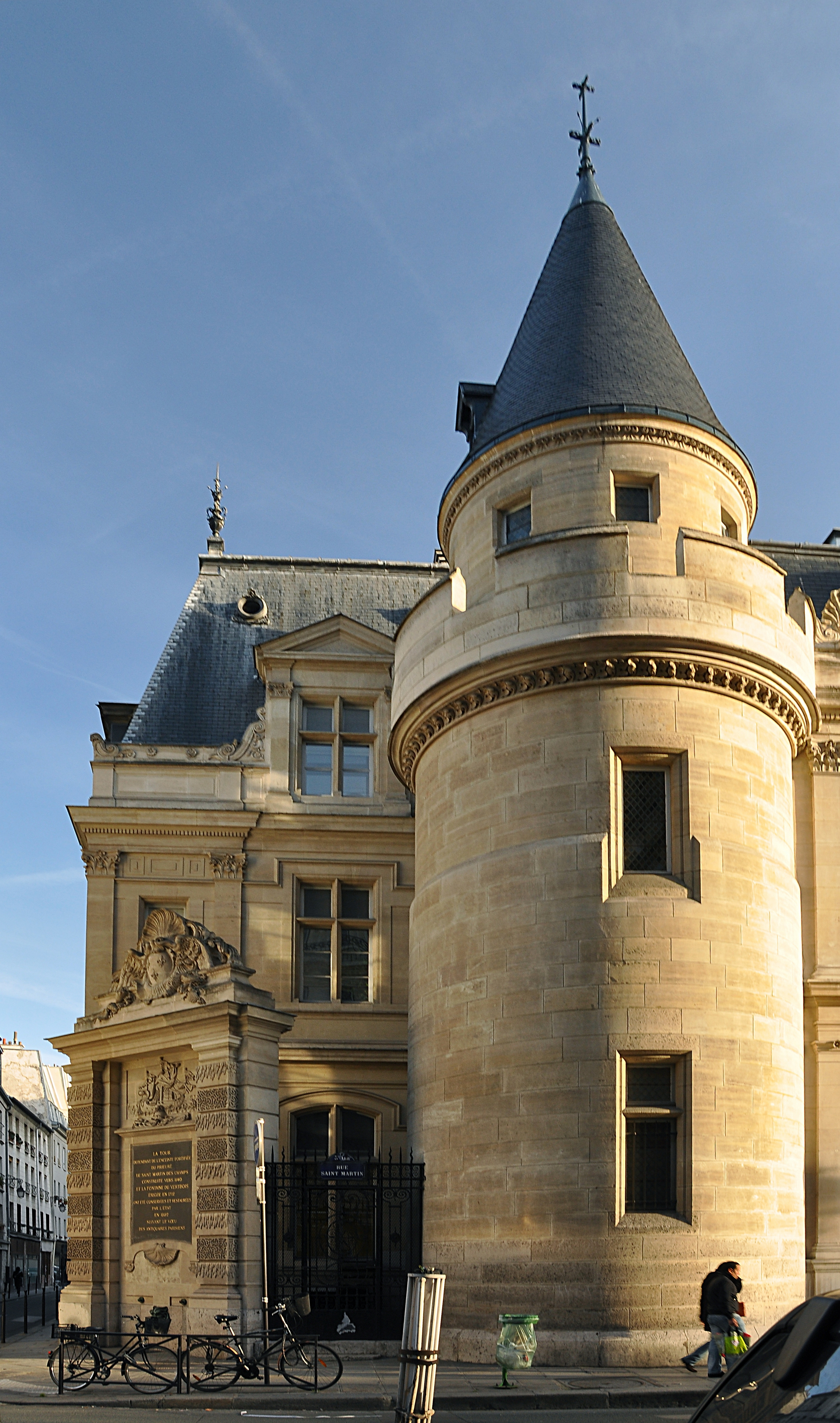 Fountain of Vertbois situated at the corner of the streets rue du Verbois and rue Saint-Martin in the 3rd district of Paris. Built in 1712 by the architect Jean-Baptiste Bullet de Chamblain. .